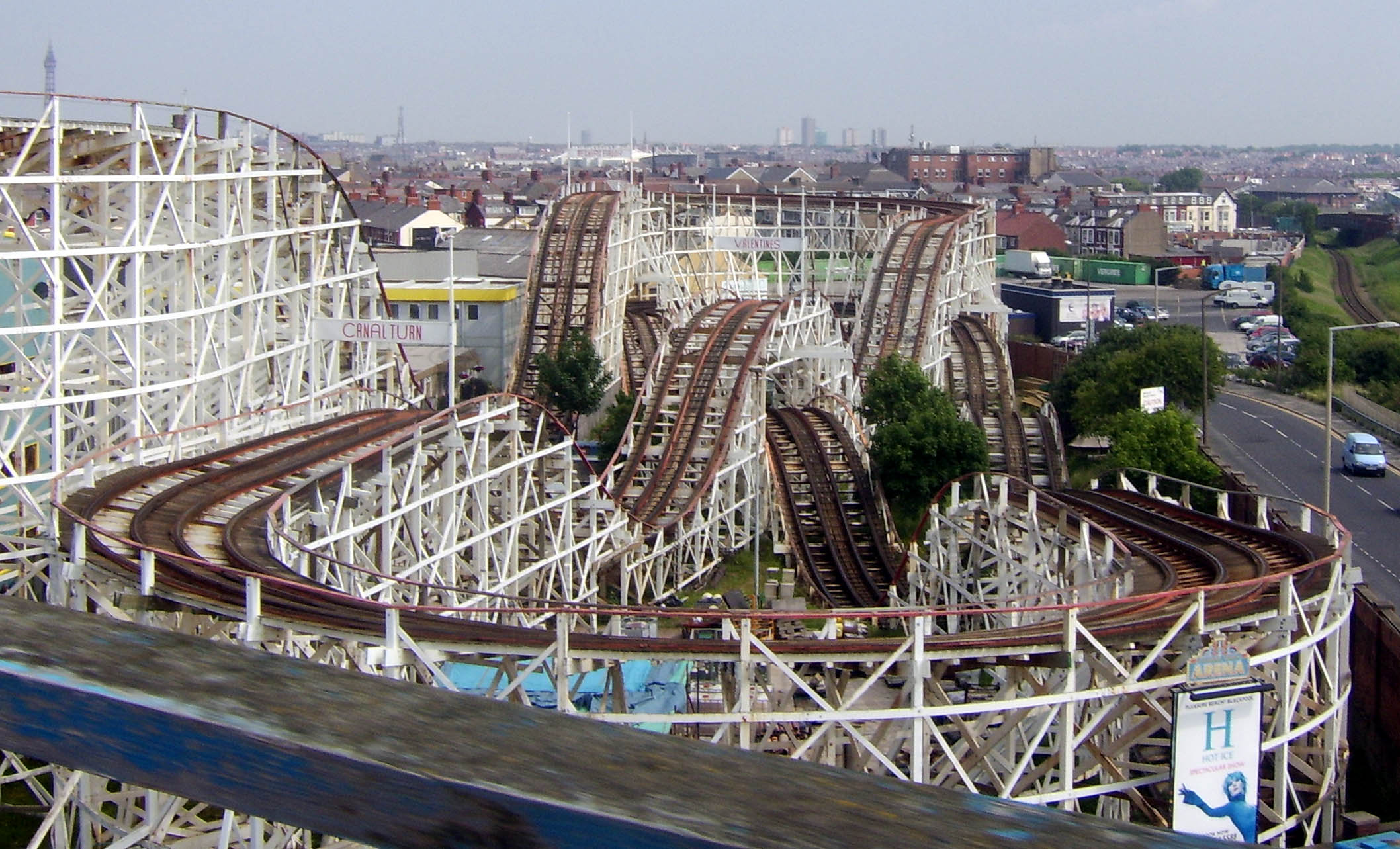 Overview of the Grand National at Blackpool Pleasure Beach. Taken June 2006 from Rollercoaster's lift hill. Taken with permission from park management